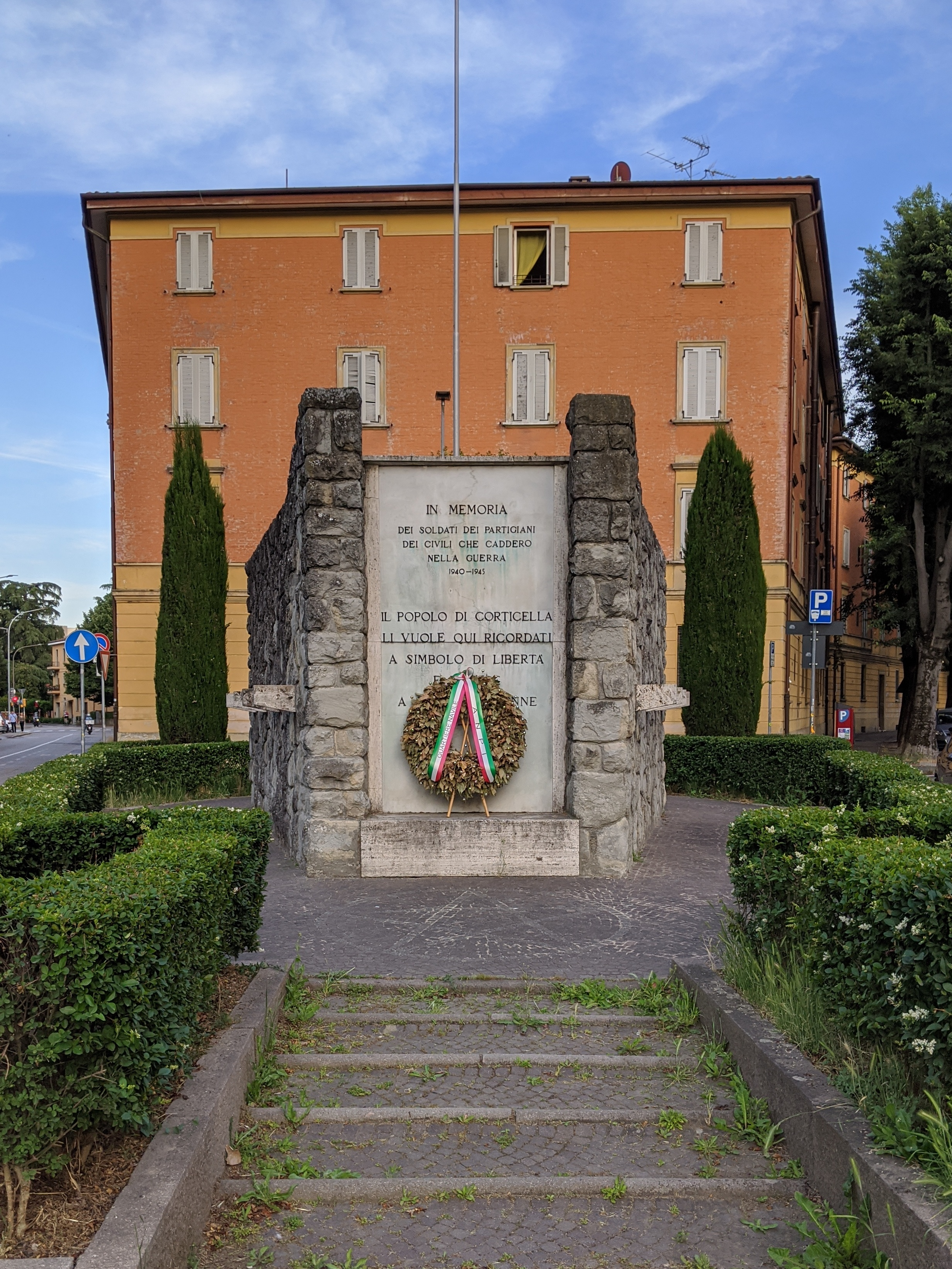 War memorial dedicated to victims of World War I and II in Corticella, Bologna, Italy.